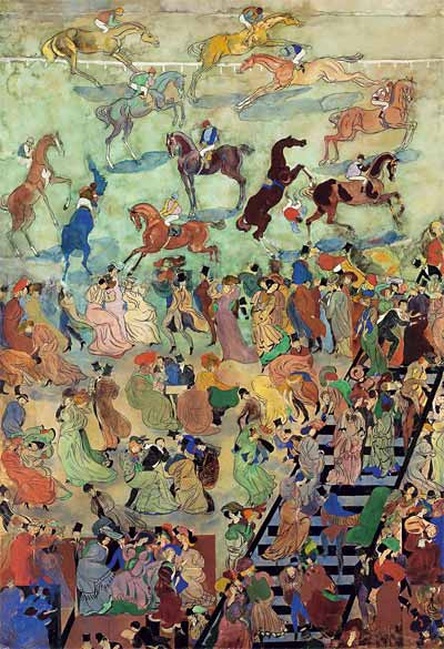 Horse racing Paper glued on cardboard, gouache, ink, pen. 102 × 69 cm The painting is located in the Tretyakov Gallery in Moscow, Russia.